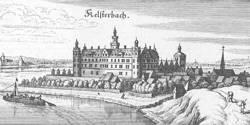 This is a scan of the historical document: Title: Kelsterbach - Topographia Hassiae language: german